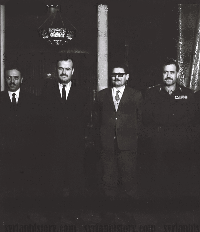 From left to right: Parliament Speaker Ahmad al-Khatib, President Hafez al-Assad, Deputy Secretary-General of the Baath Party Abdullah al-Ahmar, Defense Minister Mustapha Tlass. The photo was taken at the Presidential Palace in al-Muhajreen, used by Assad during the years 1970-1978.